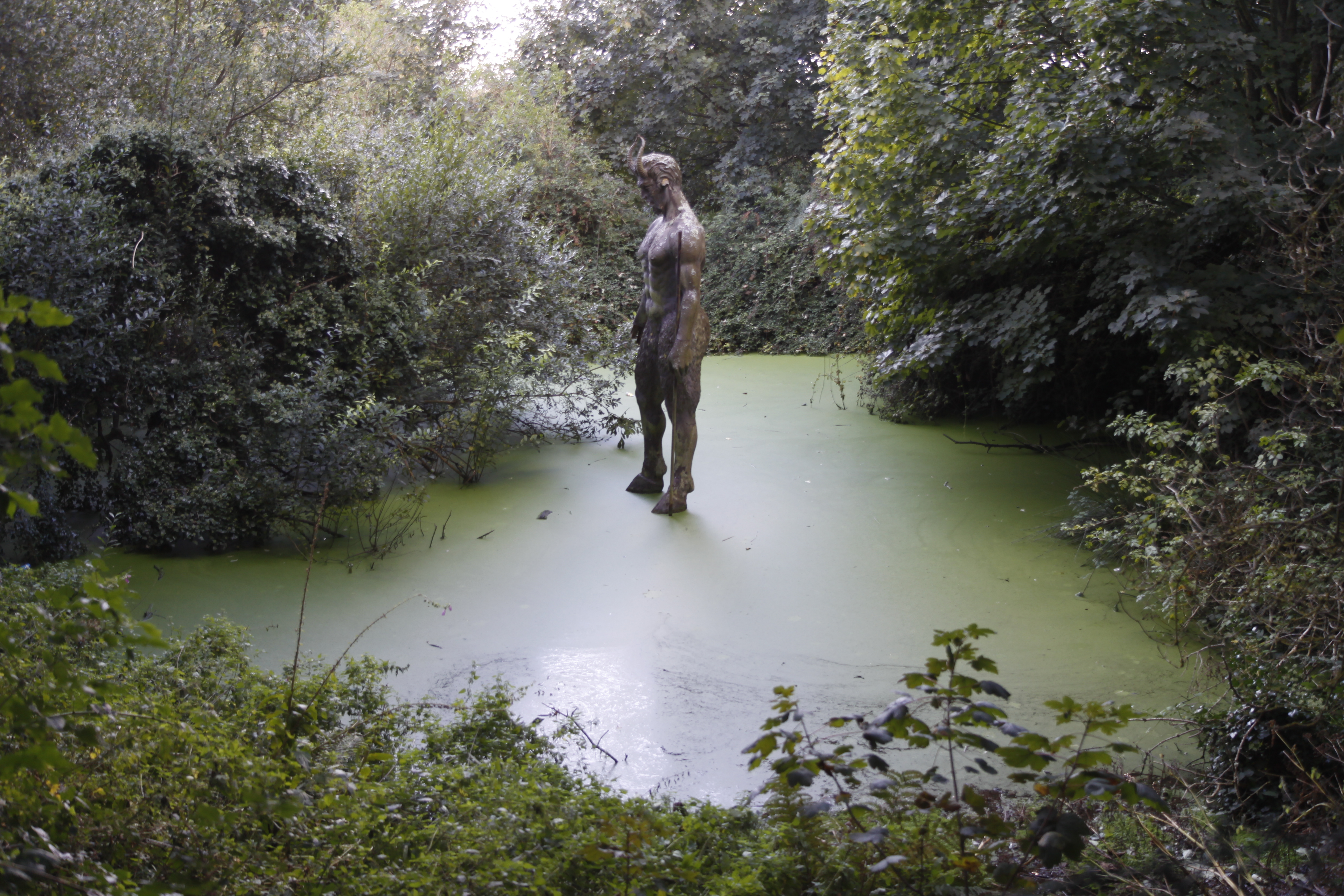 Closed to the Devils Hole is in a litttle tree coverd pont the figure of a devil